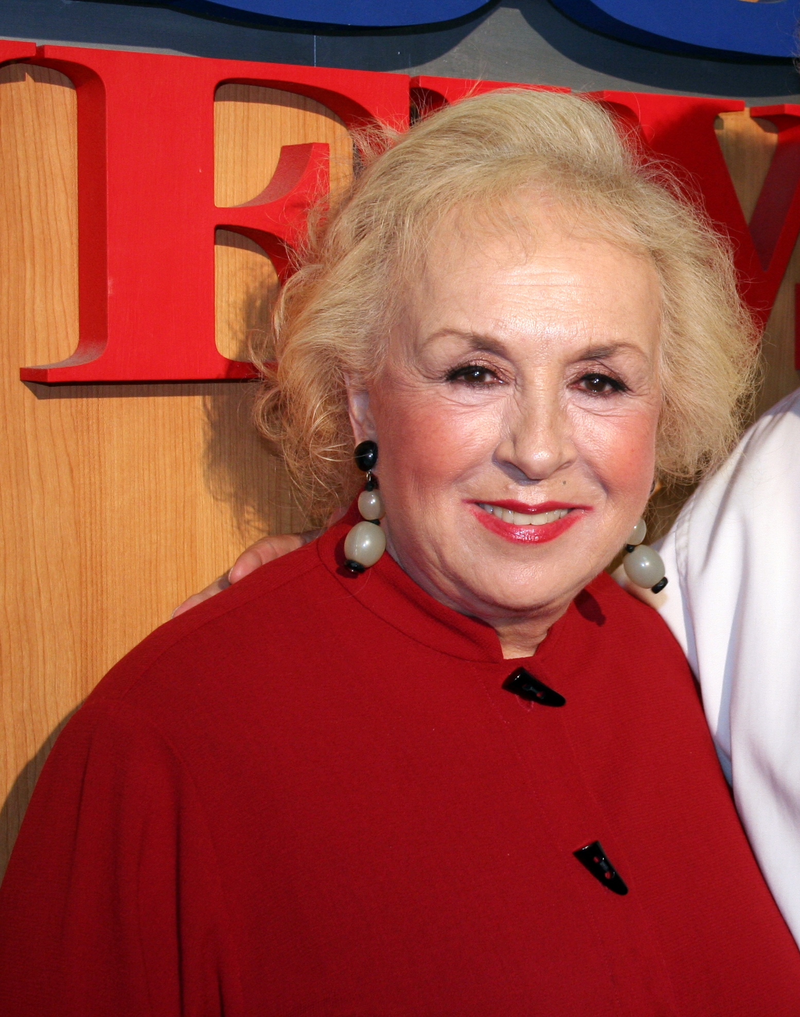 I personally took this photo of Doris Roberts while she was in San Diego. Please acknowledge "Phil Konstantin" as the creator of this photograph.